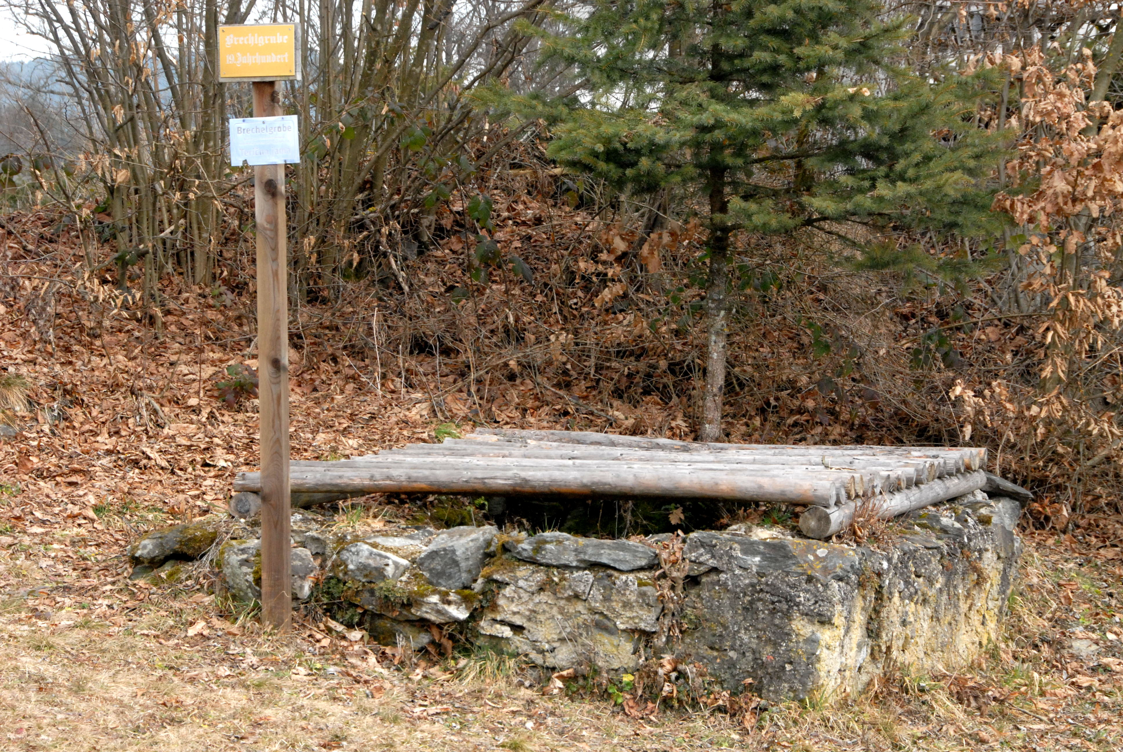 Pit for flax-processing (no longer in use) in Saint Nikolai, municipality Keutschach am See, district Klagenfurt-Land, Carinthia, Austria